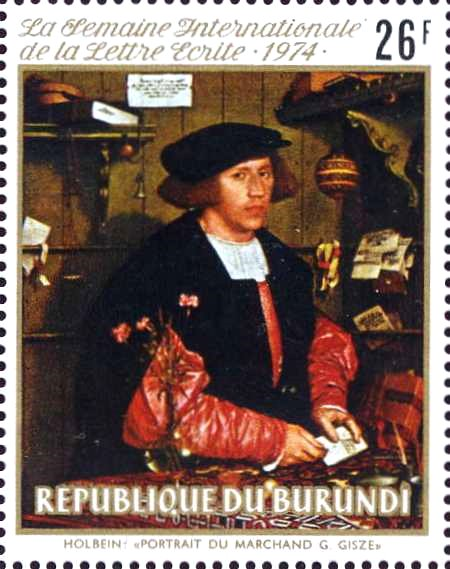 Portrait of the Merchant Georg Gisze, Holbein, 1532, on 1974 Burundi stamp.